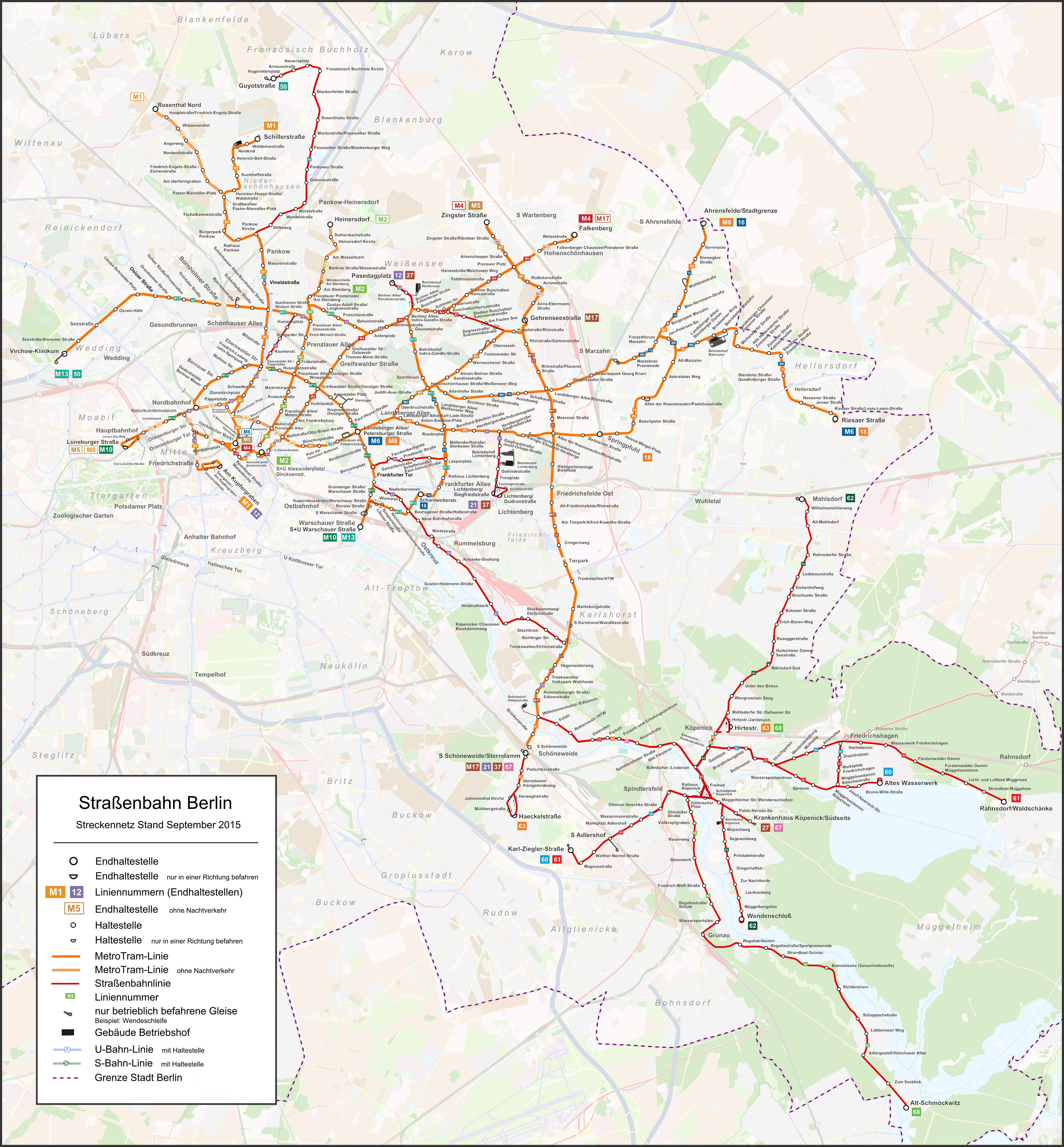 Map of Berlin tram as per September 2015 (including changes near Nordbhf and extension of two more lines to Hauptbahnhof)